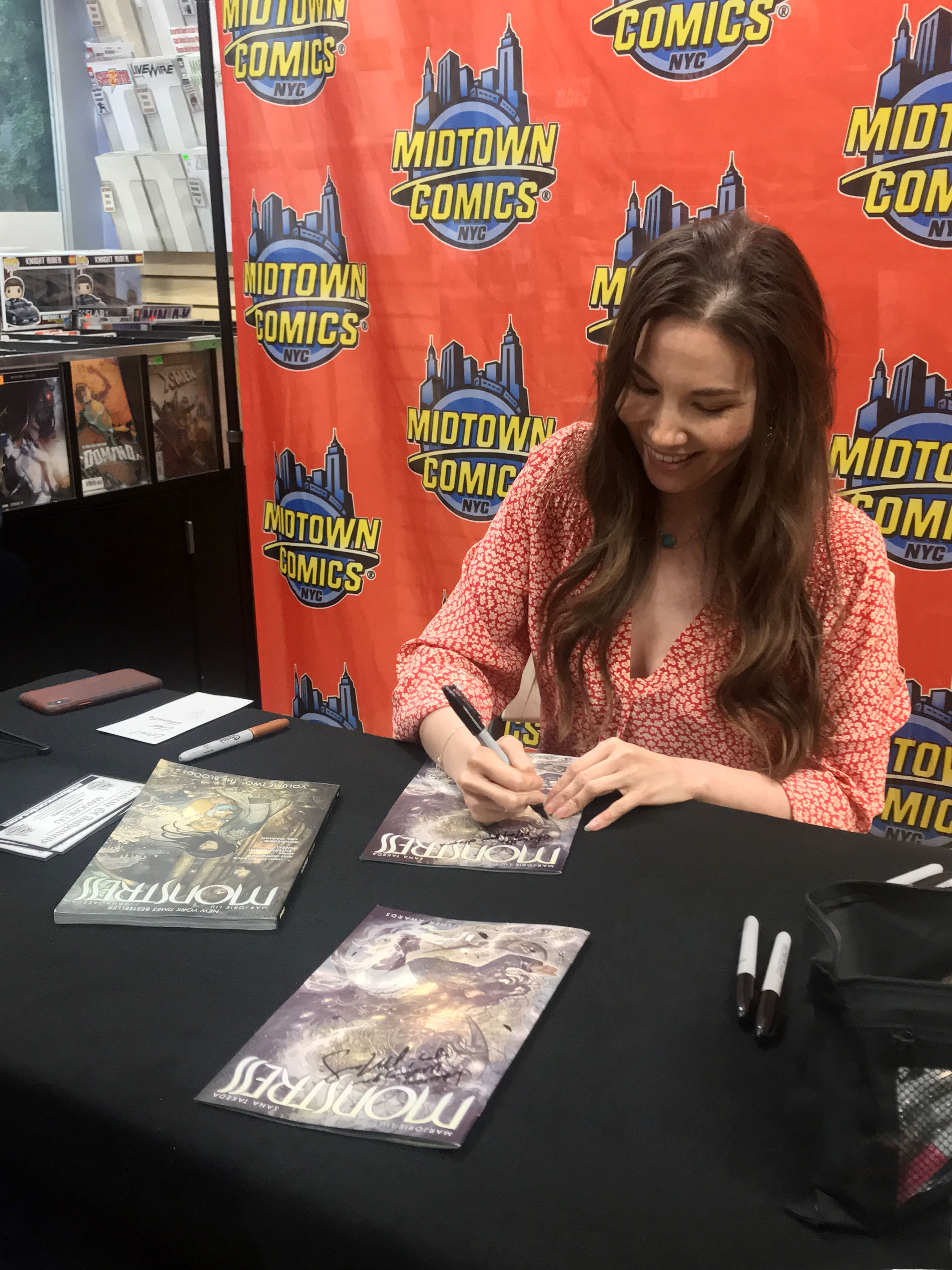 Horror/fantasy novelist and comic book writer Marjorie Liu at a May 30, 2019 signing for Monstress #22 at Midtown Comics Downtown in Manhattan. This photo was created by Luigi Novi. It is not in the public domain, and use of this file outside of the licensing terms is a copyright violation.